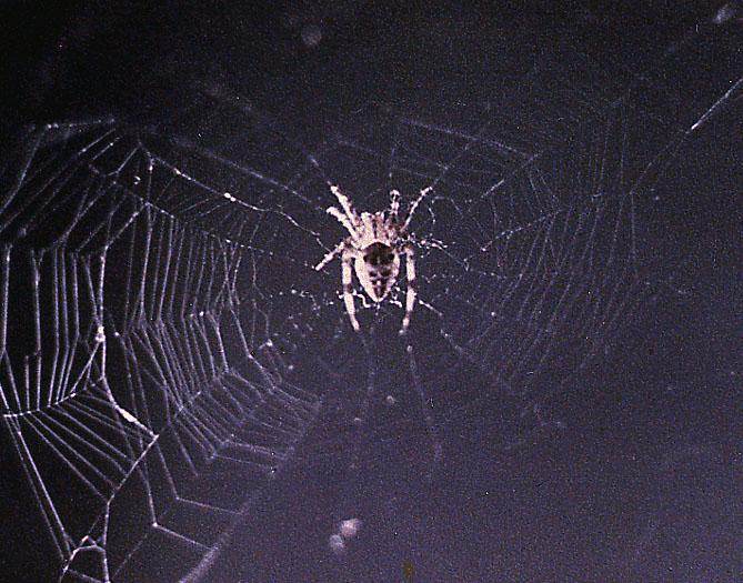 Arabella, a common cross spider, spins an earthly web aboard the second Skylab mission in 1973 after initial disoriented attempts. The experiment, Web Formation in Zero Gravity, part of the Skylab Student Project, was submitted by Judith Miles, a junior at Lexington High School in Lexington, Massachusetts. The Marshall Space Flight Center had program management responsibility for the development of Skylab hardware and experiments, including the Skylab Student Project. Name of Image: Arabella MIX #: 9513725 NIX #: MSFC-9513725 MSFC Negative Number: 9513725 Reference Number: MSFC-75-SA-4105-2C